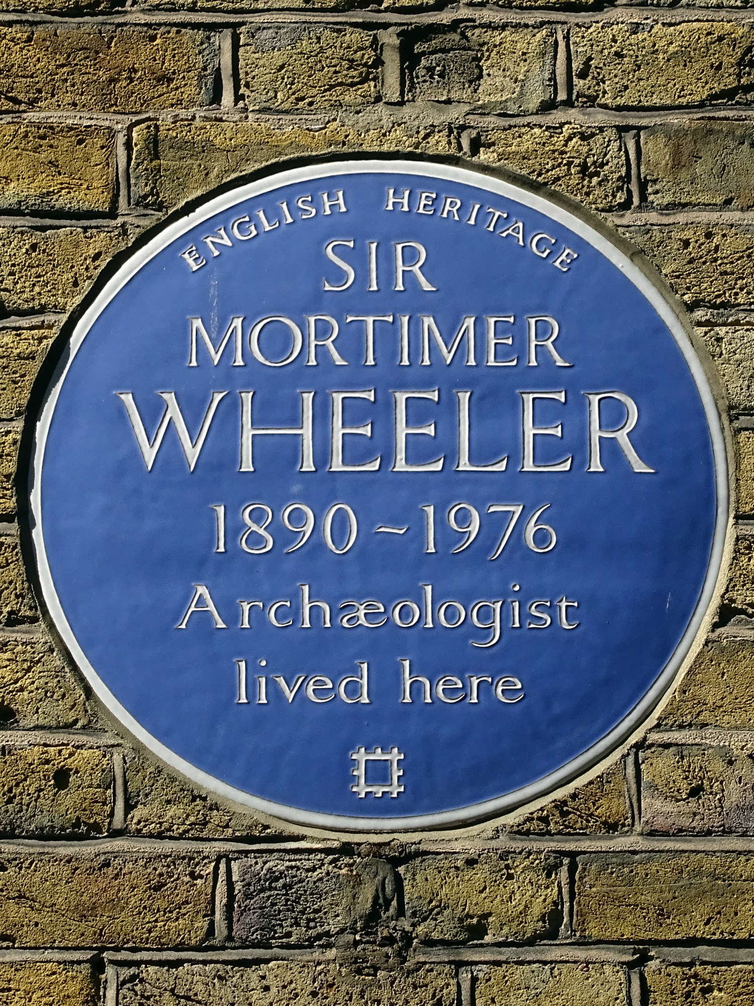 Blue paque erected in 1993 by English Heritage at 27 Whitcomb Street, Leicester Square, London WC2H 7EP, City of Westminster